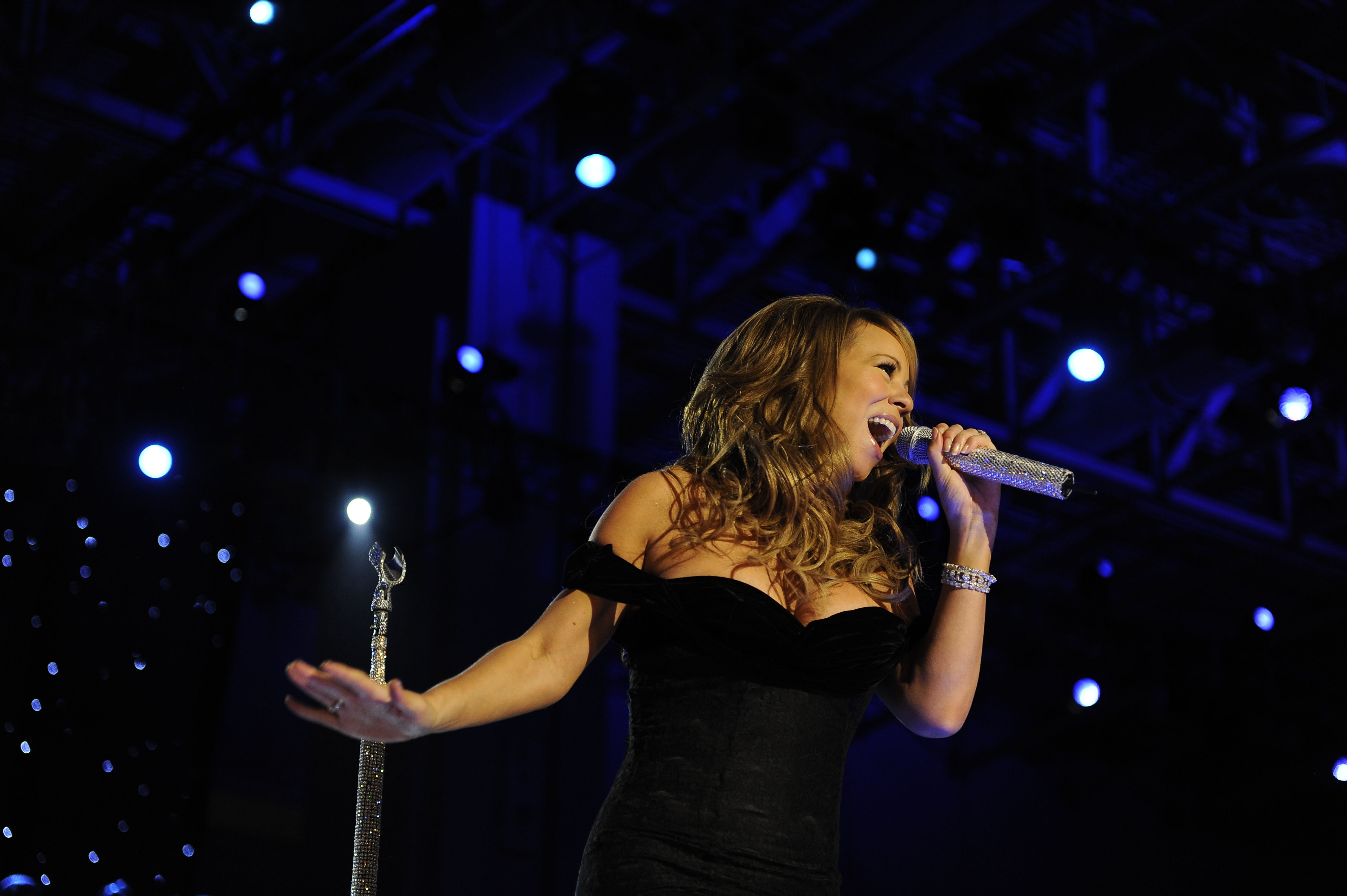 Mariah Carey sings at the Neighborhood Ball in downtown Washington, D.C., Jan. 20, 2009. More than 5,000 men and women in uniform are providing military ceremonial support to the presidential inauguration, a tradition dating back to George Washington's 1789 inauguration.